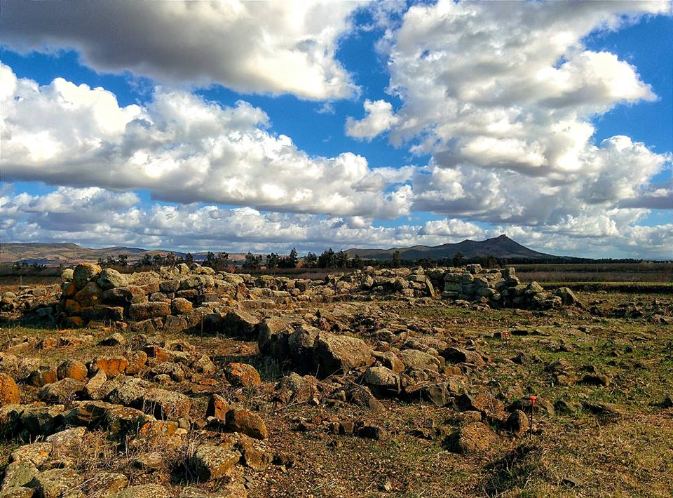 Nuraghe Fenu, Located in Pabillonis - Sardinia. An important big Nuraghe made in the 1600/1300 a.c.